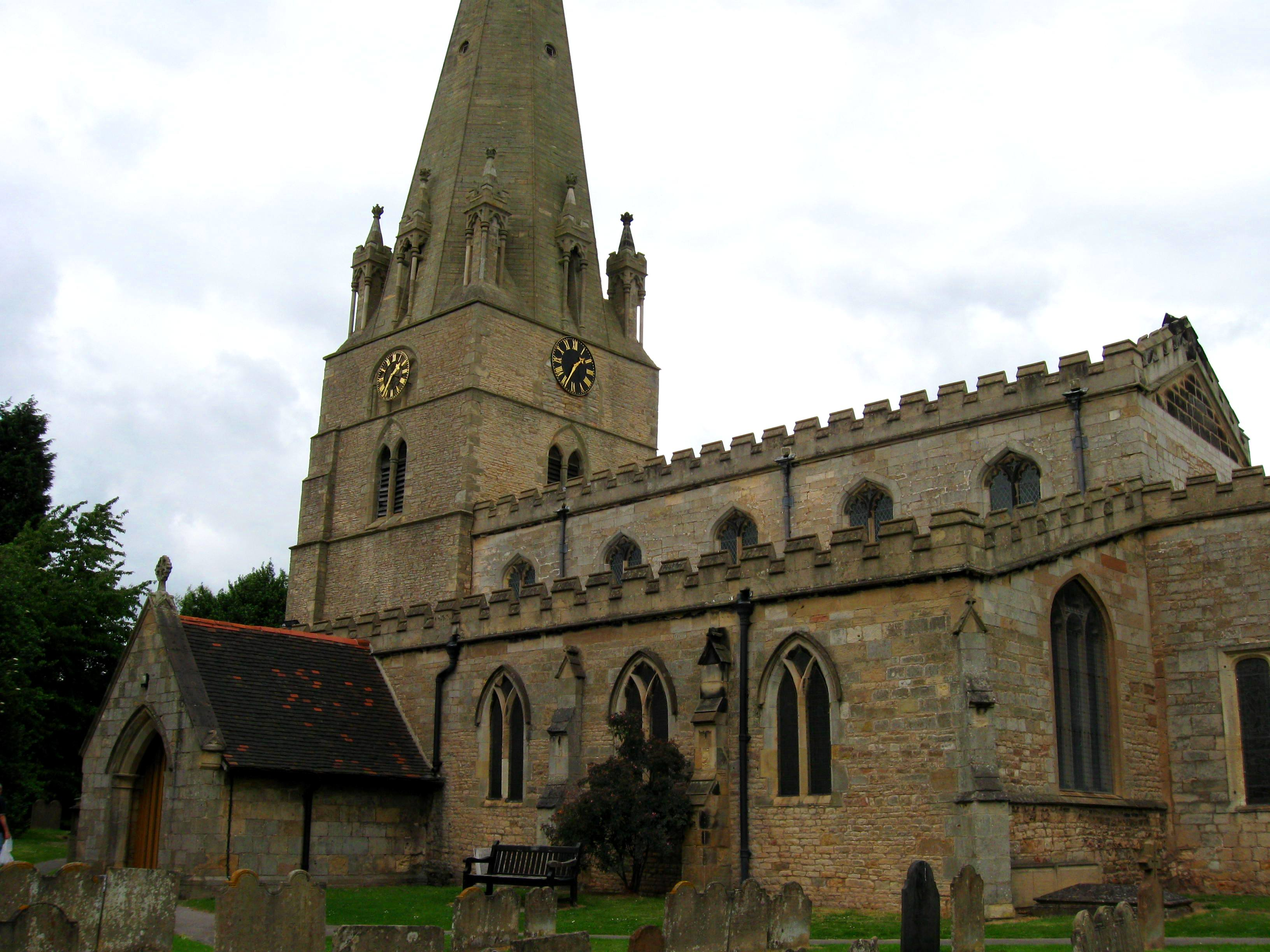 St. Mary's Church, Edwinstowe, England